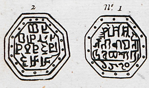 Jean-Baptiste Tavernier (1605 – 1689) was a 17th-century French gem merchant and traveler. Tavernier, a private individual and merchant traveling at his own expense, covered, by his own account, 60,000 leagues (120,000 miles) in making six voyages to Persia and India between the years 1630 and 1668. In 1675, Tavernier, at the behest of his patron Louis XIV, published Les Six Voyages de Jean-Baptiste Tavernier (Six Voyages, 1676).